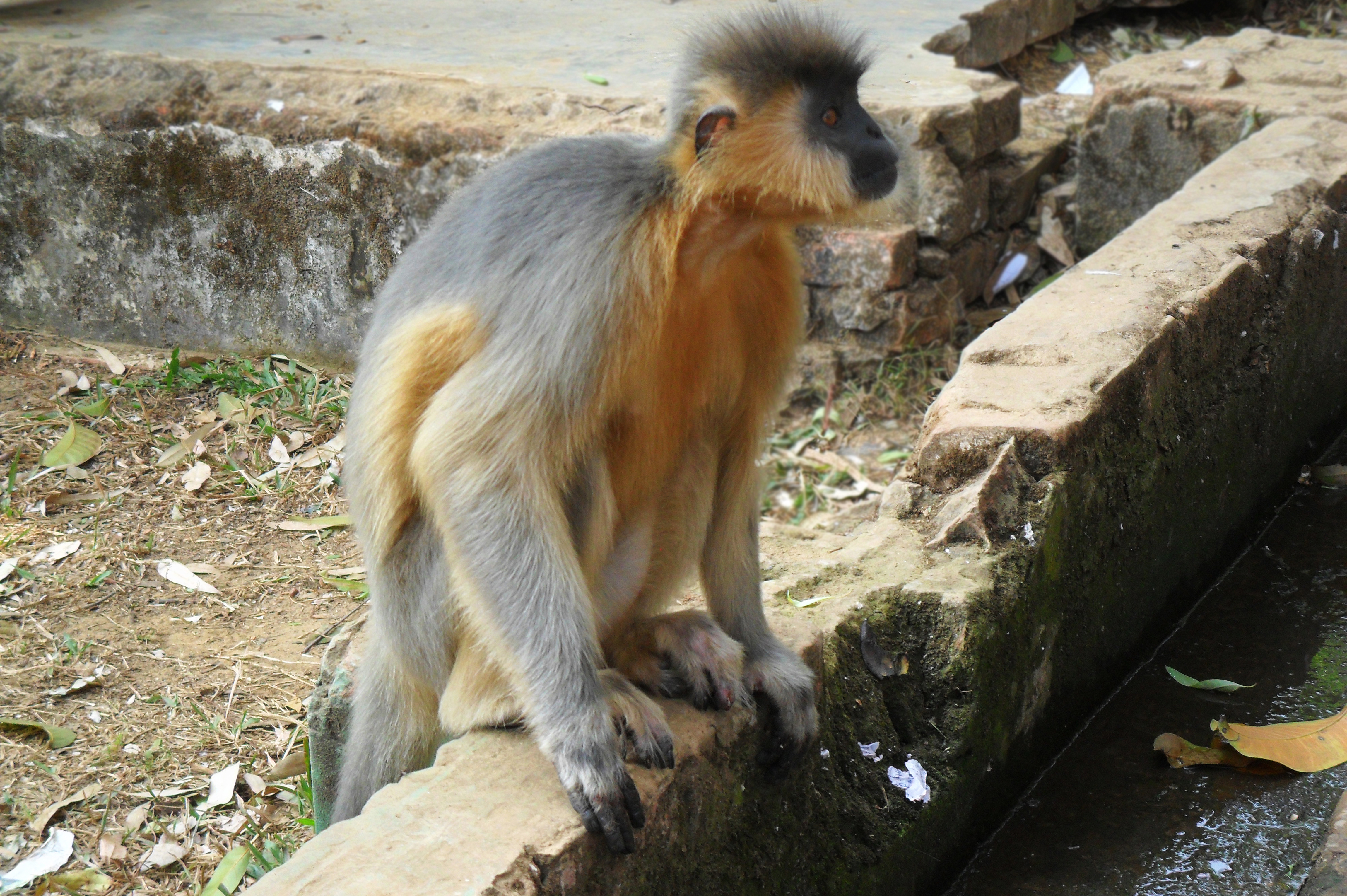 Capped langur (Trachypithecus pileatus) is a species of primate in the family Cercopithecidae, Chittagong Zoo. It is found in Bangladesh, Bhutan, India, and Myanmar.